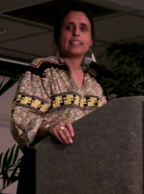 Winona LaDuke at Dream Reborn Conference 2008